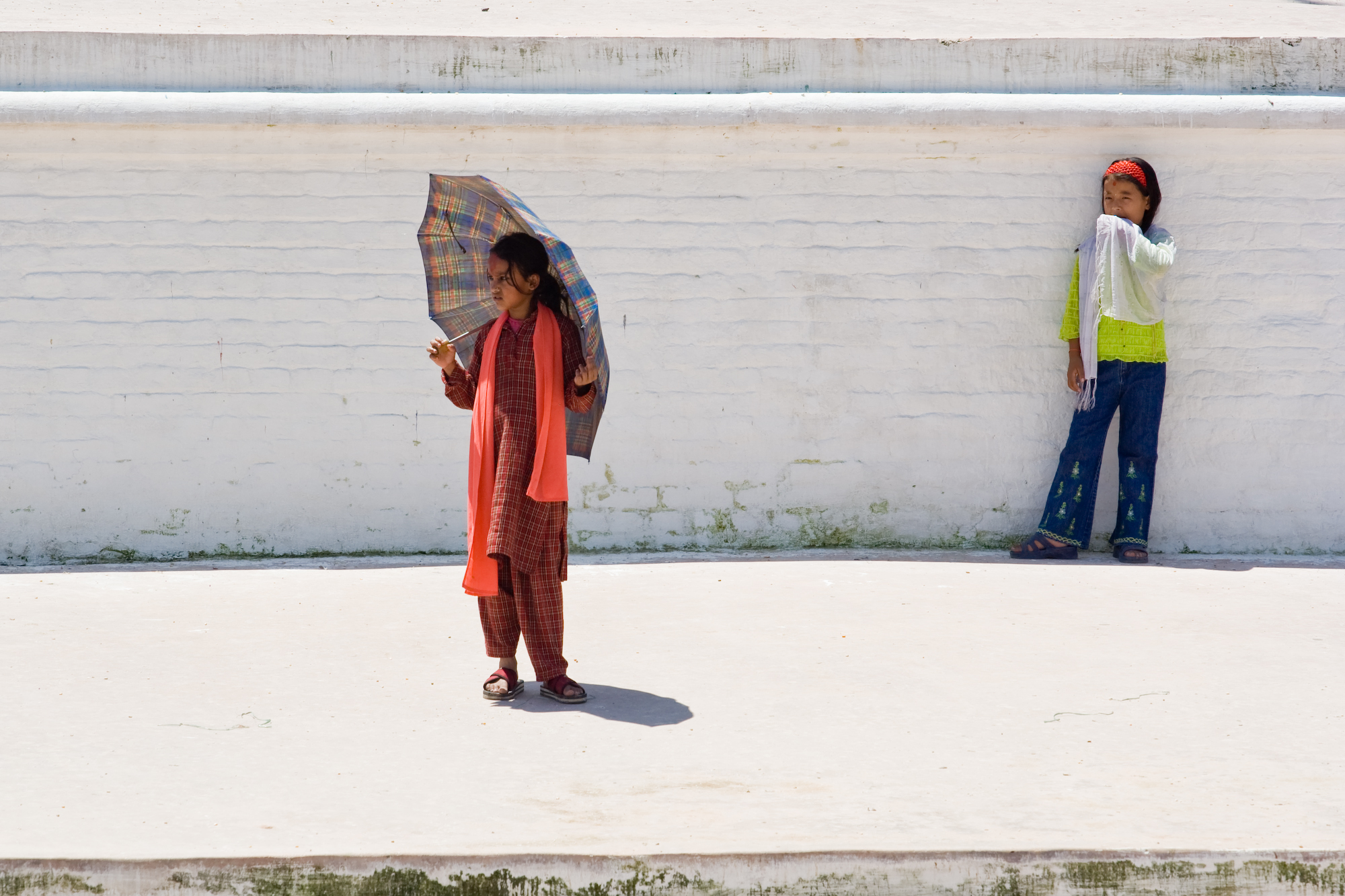 Two girls seeking shadow on Bodnath Temple. Bodnath is one of the holiest Buddhist sites in the area of Kathmandu, Nepal.